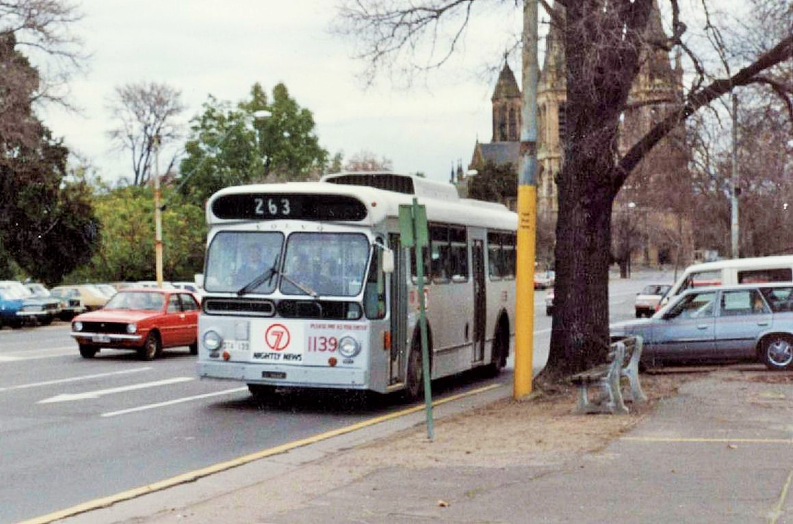 State Transport Authority, Adelaide B59 No.1139 opposite Adelaide Oval. Bodywork by PMC Adelaide and arguably the most recognizable body work of all the B59's built.